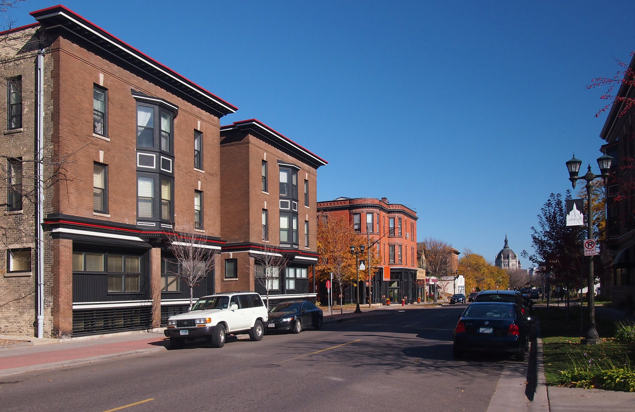 Selby Avenue just west of Mackubin Street, looking east-northeast with the Cathedral of Saint Paul in the background.